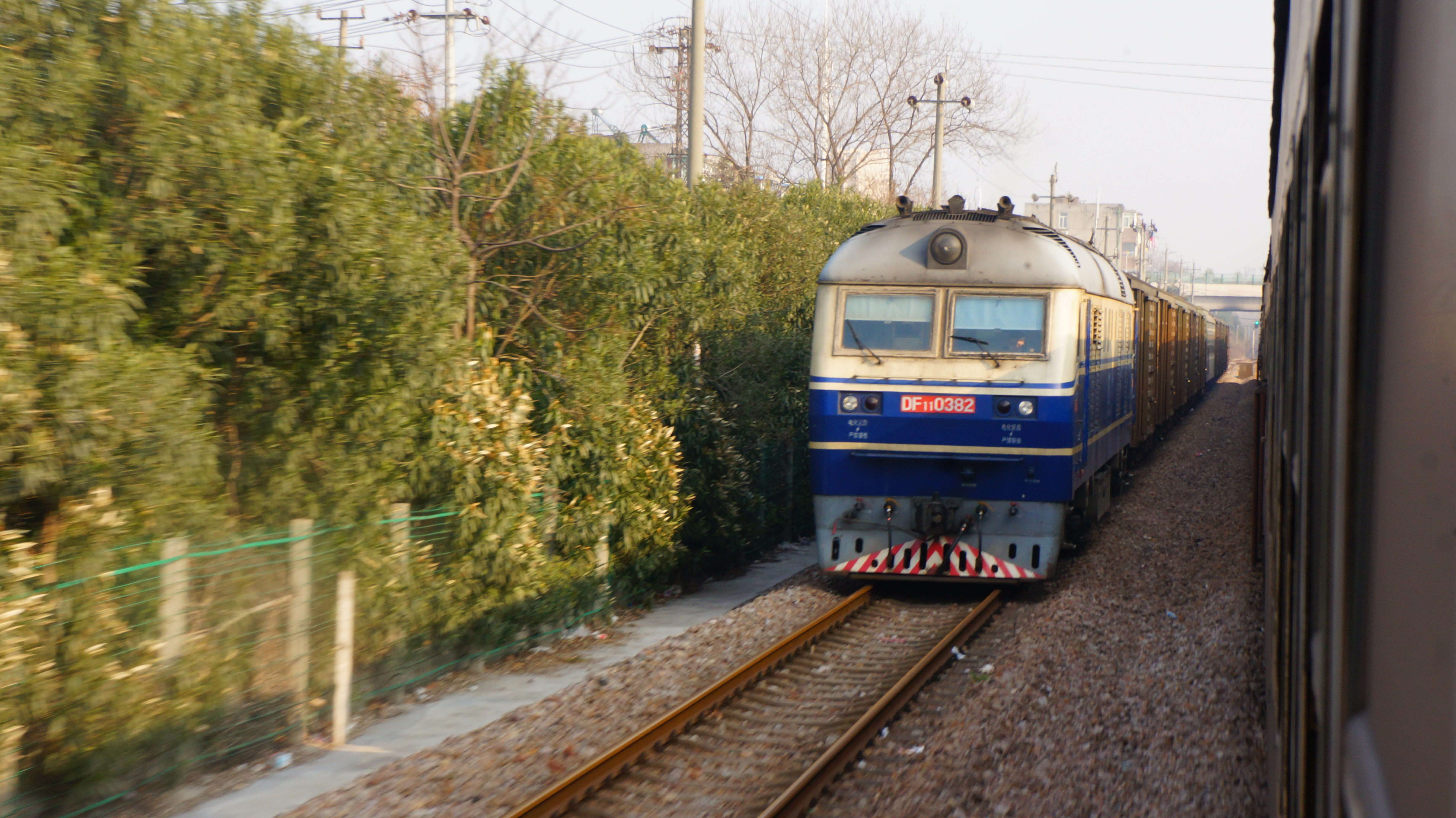 201601,Guanghuamen Railway Station